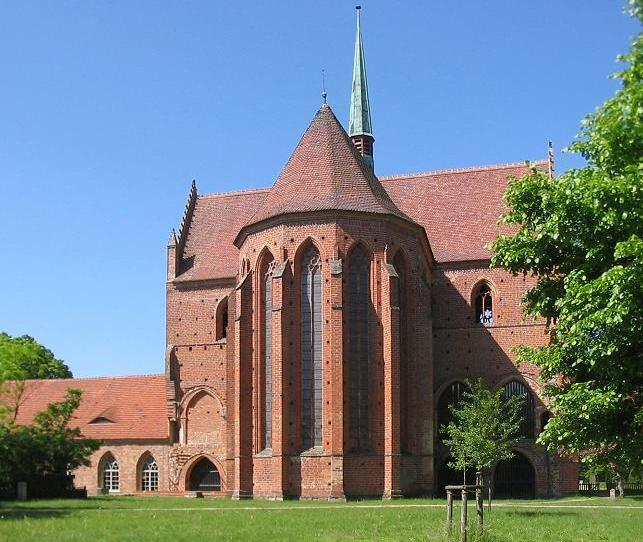 Cistercian Monastery Chorin, founded in 13th century by the together governing Ascanian Margraves of Brandenburg John I (1213–1266) and Otto III (ca. 1215–1267). Chorin is a municipality in the District Barnim, state Brandenburg, Germany.